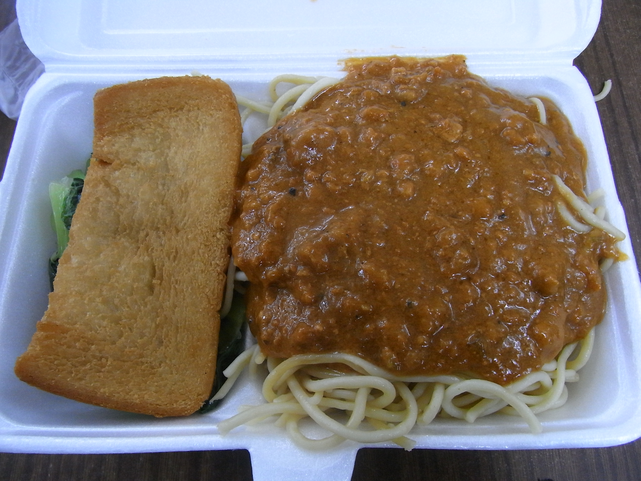 Lunch box with oil deep fried white bread